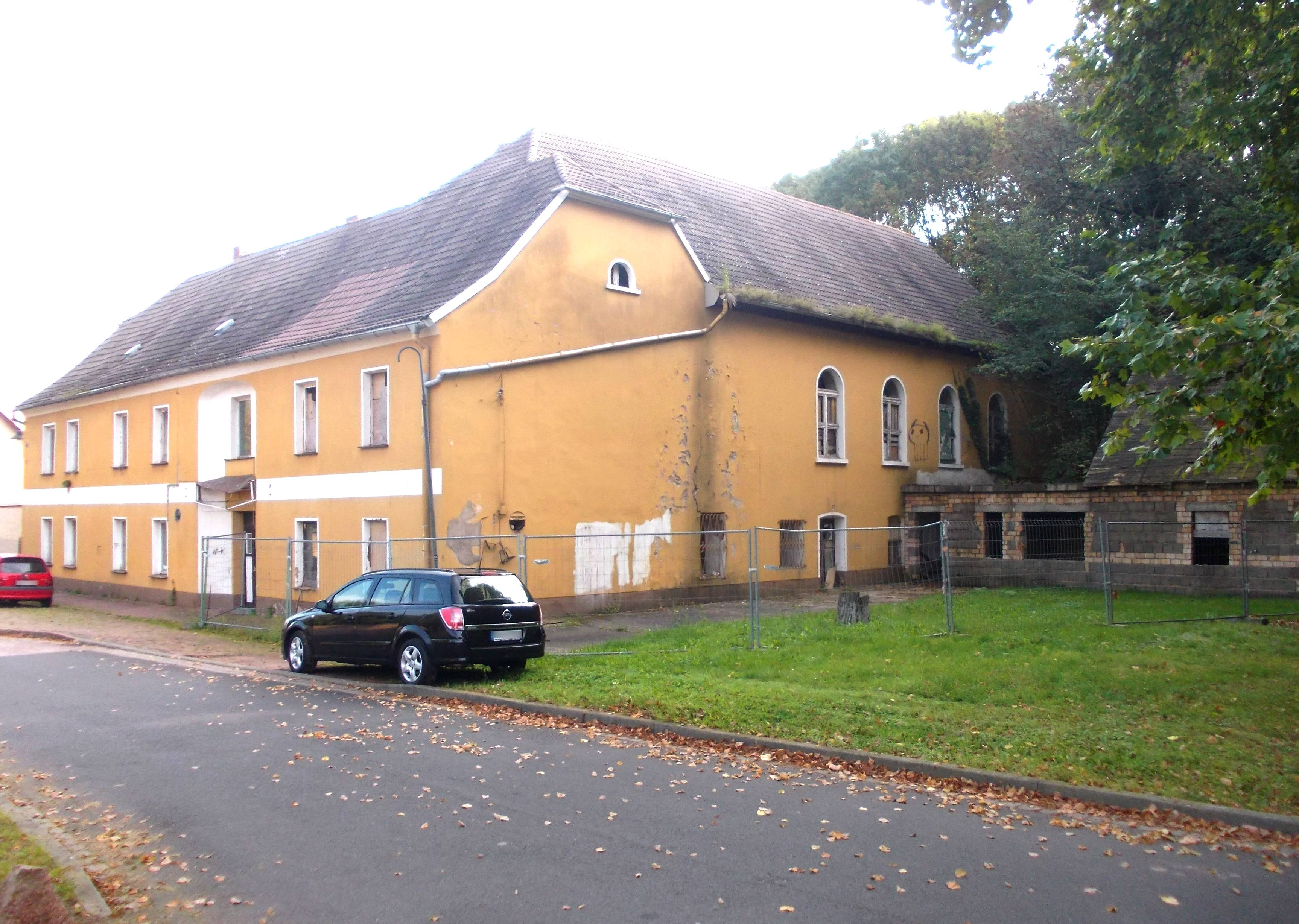 Schützenhaus in Löbejün (Wettin-Löbejün, district: Saalekreis, Saxony-Anhalt)